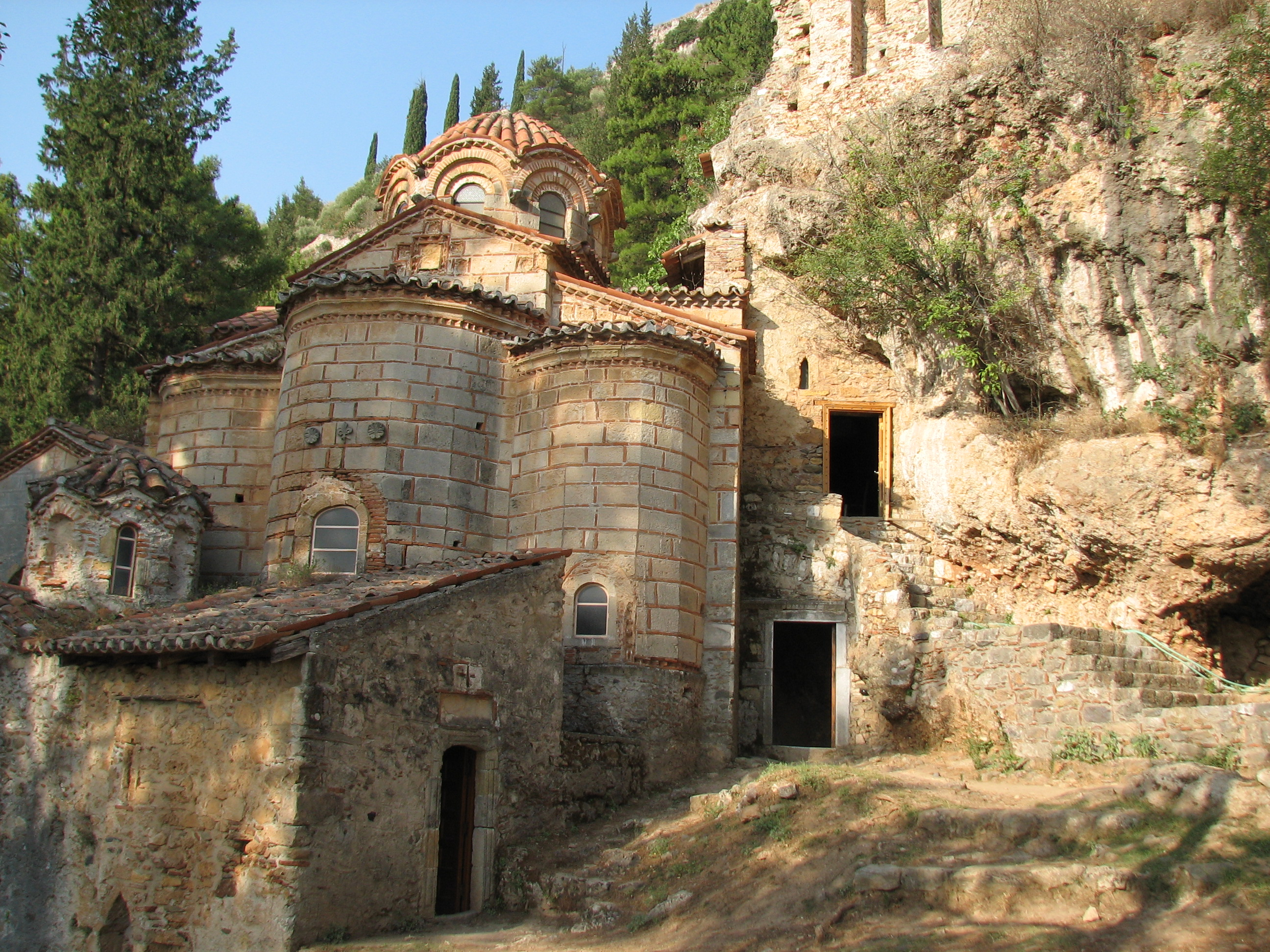 Byzantine city of Mystras,Peribleptos church.